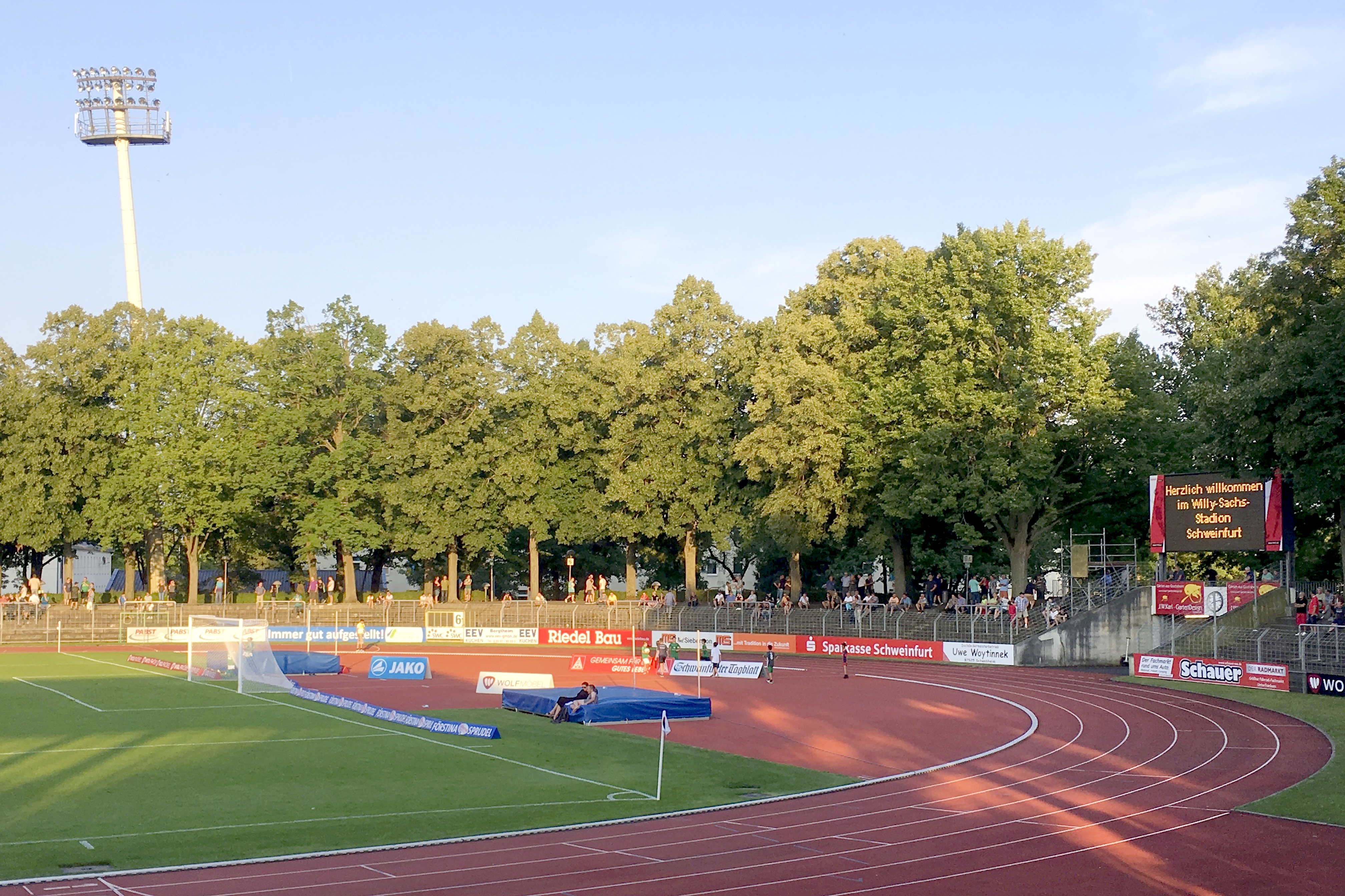 Standing rooms with Marathon gate and electronic scoreboard at Willy-Sachs-Stadion (2017)